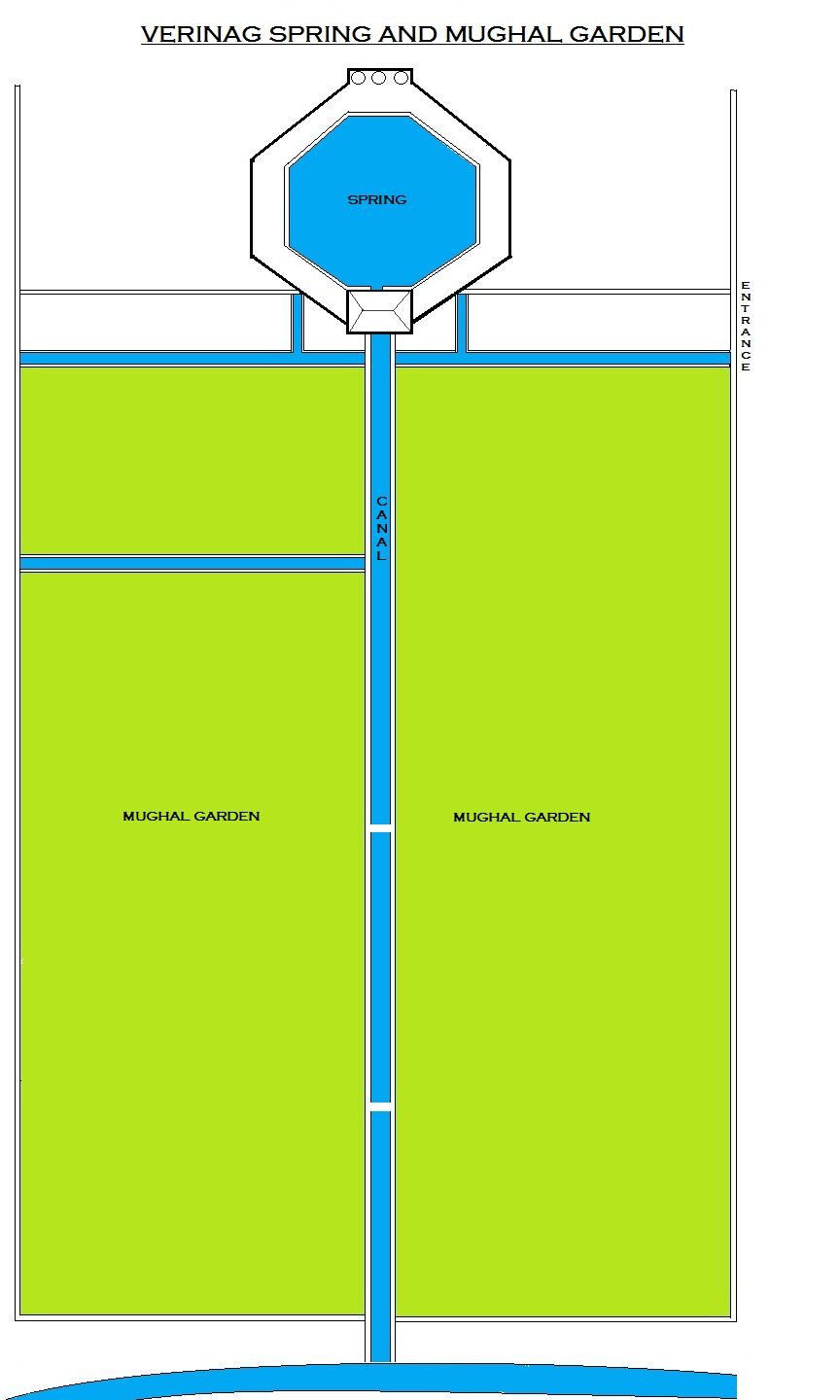 This image shows plan of Mughal garden in Verinag, Jammu and Kashmir, India.